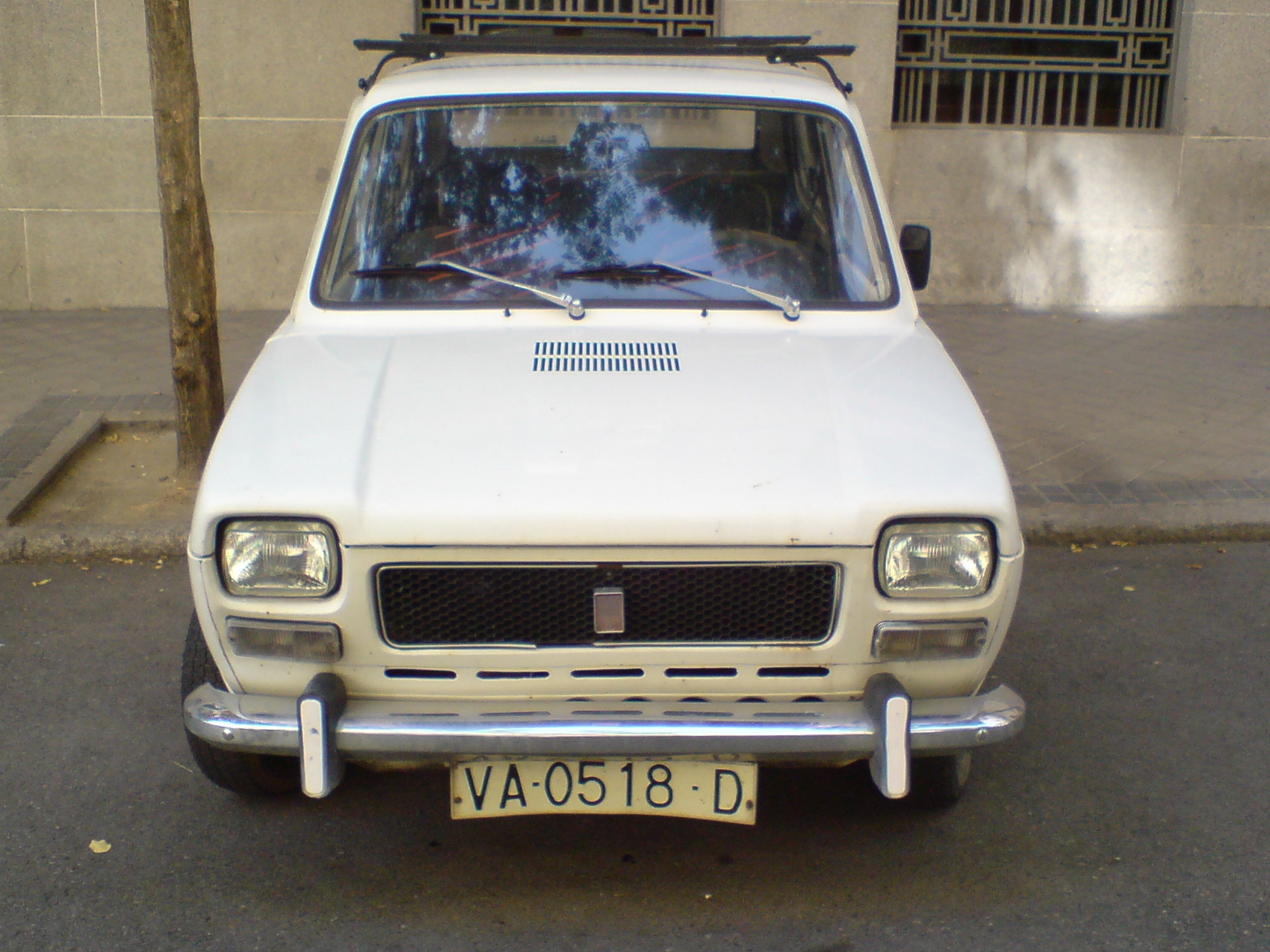 Fiat_SEAT_127_f.